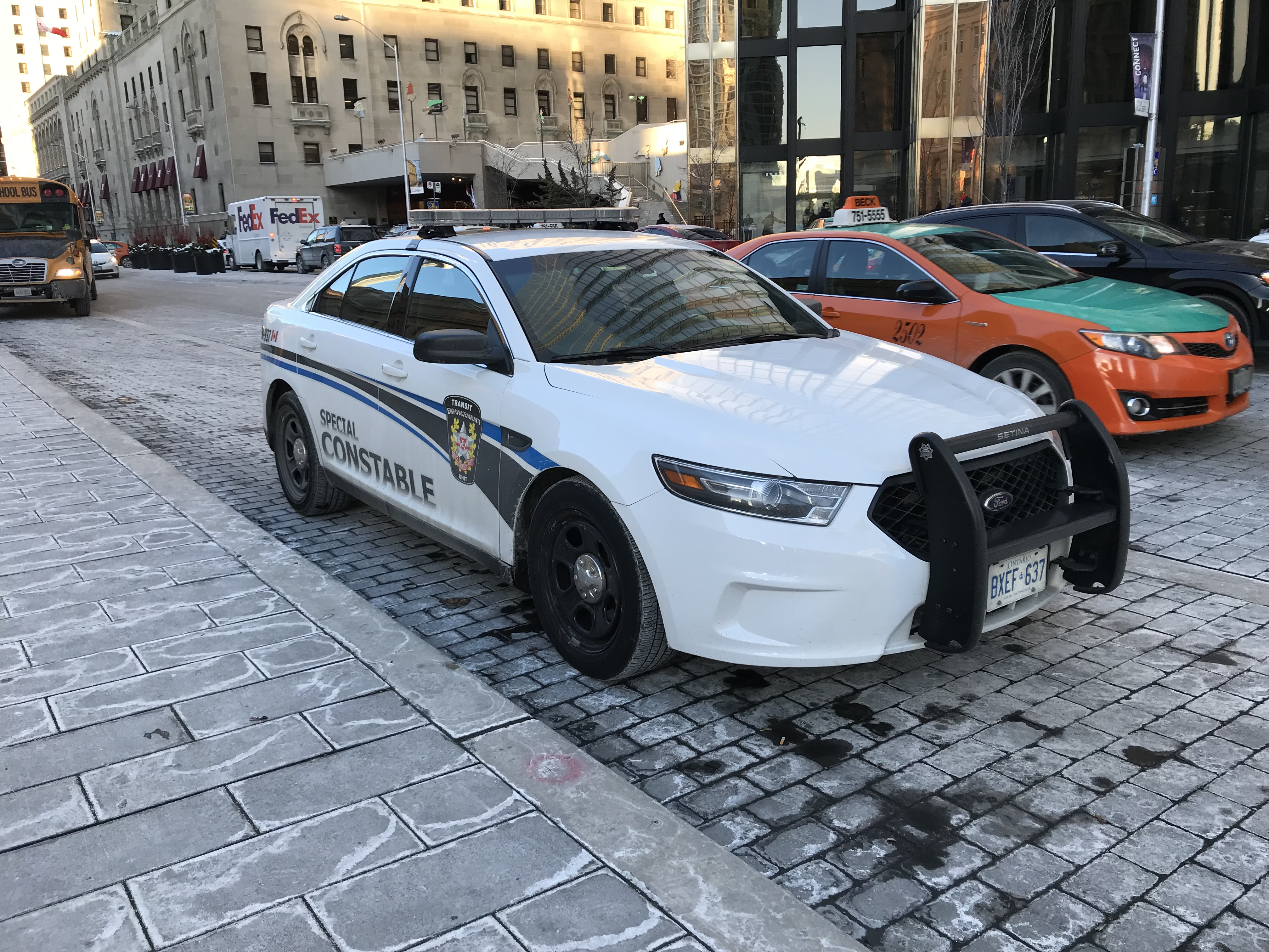 A TTC Transit Enforcement Unit cruiser on Front Street, marked "Special Constable", Ontario license plate BXEF 637 with a Setina rack. Also visible is Beck Taxi 2502.